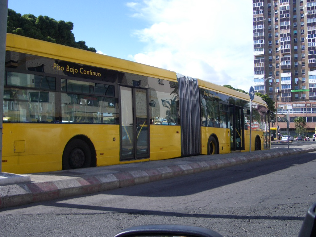 Articulated bus in Las Palmas de Gran Canaria, Spain.